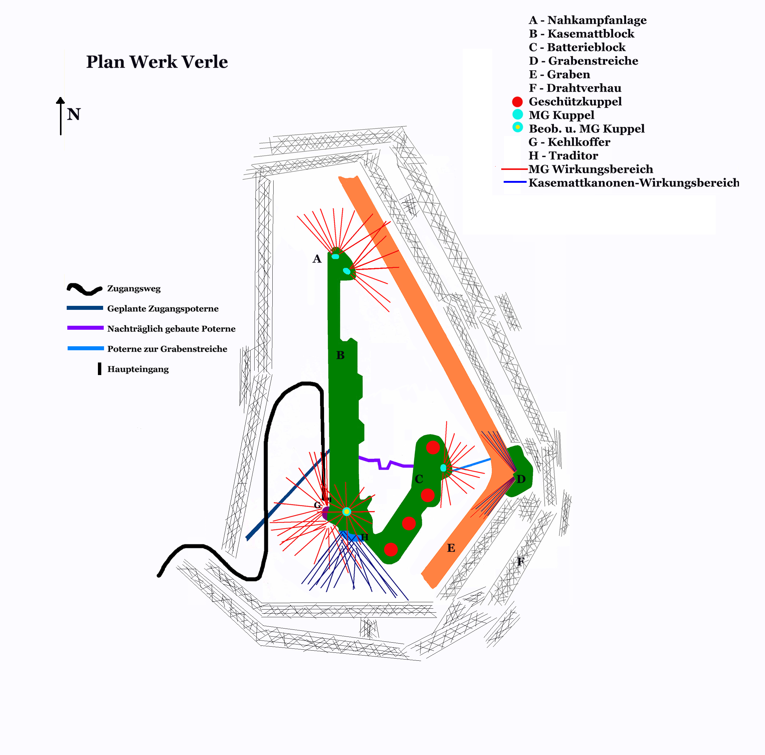 Map of the Fort Verle